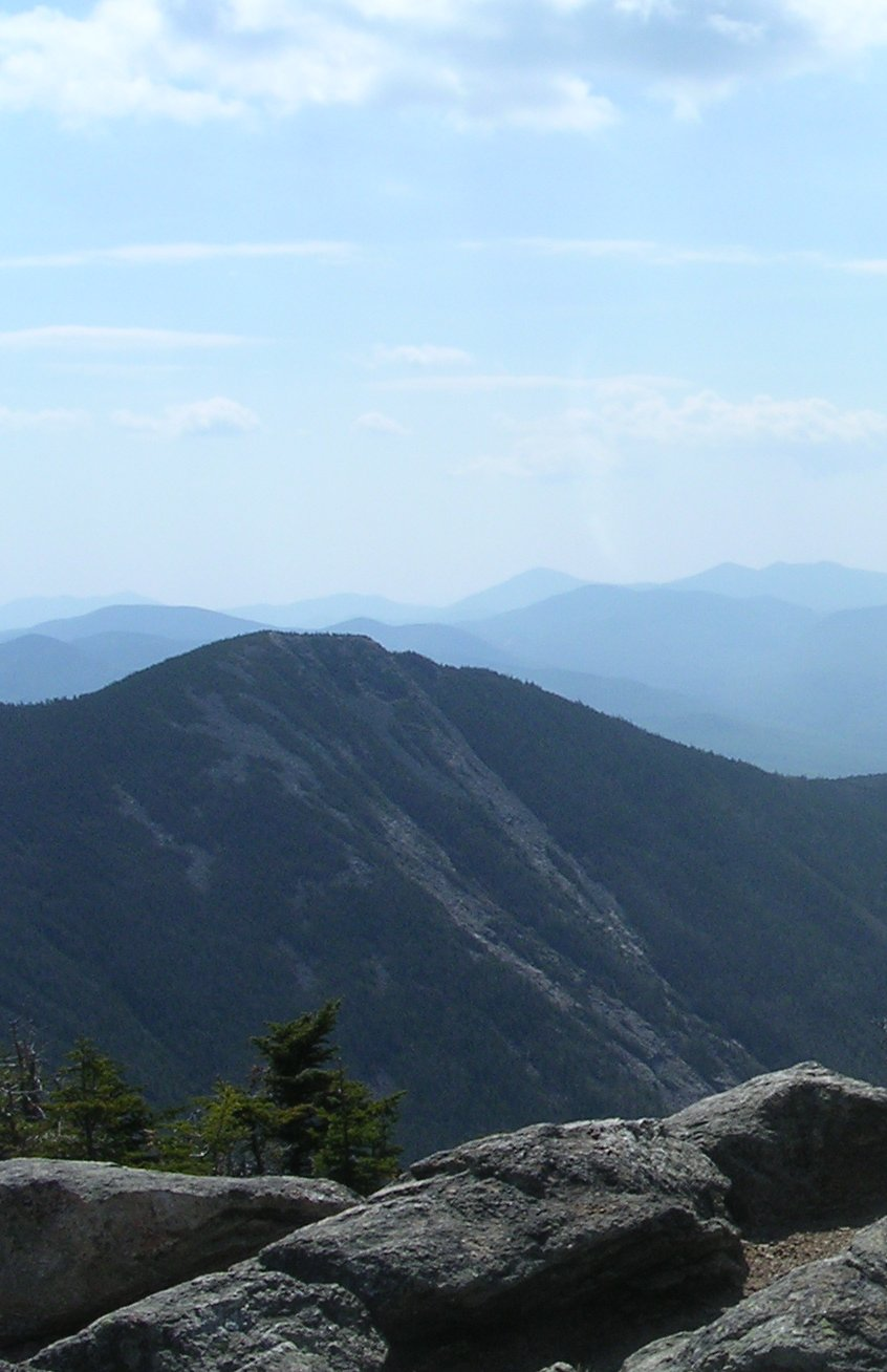 View of Mount Flume from Mount Liberty, New Hampshire, USA.